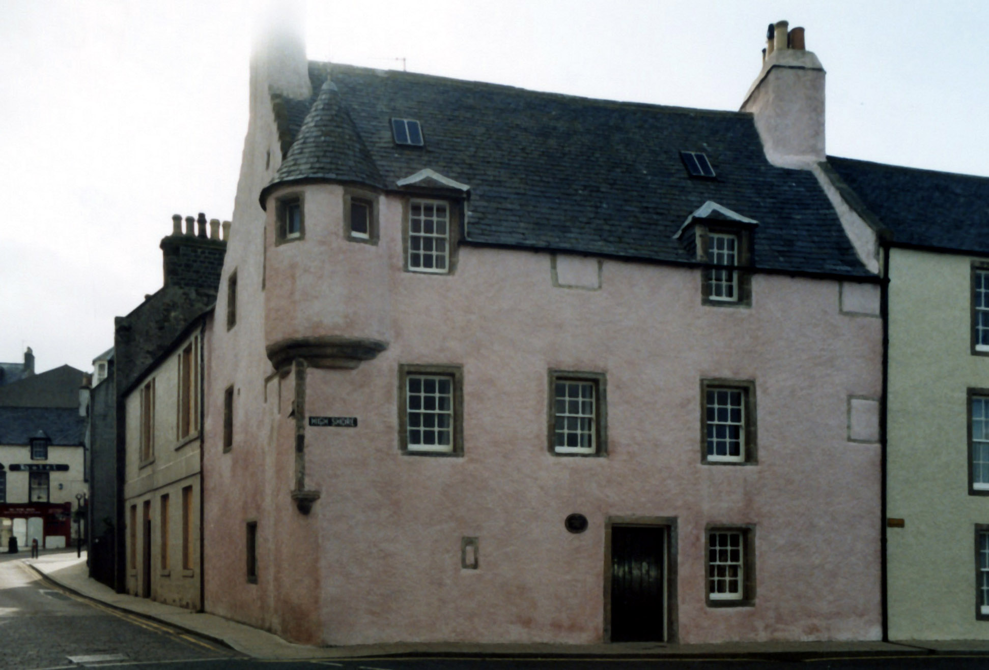 1 High Shore Banff